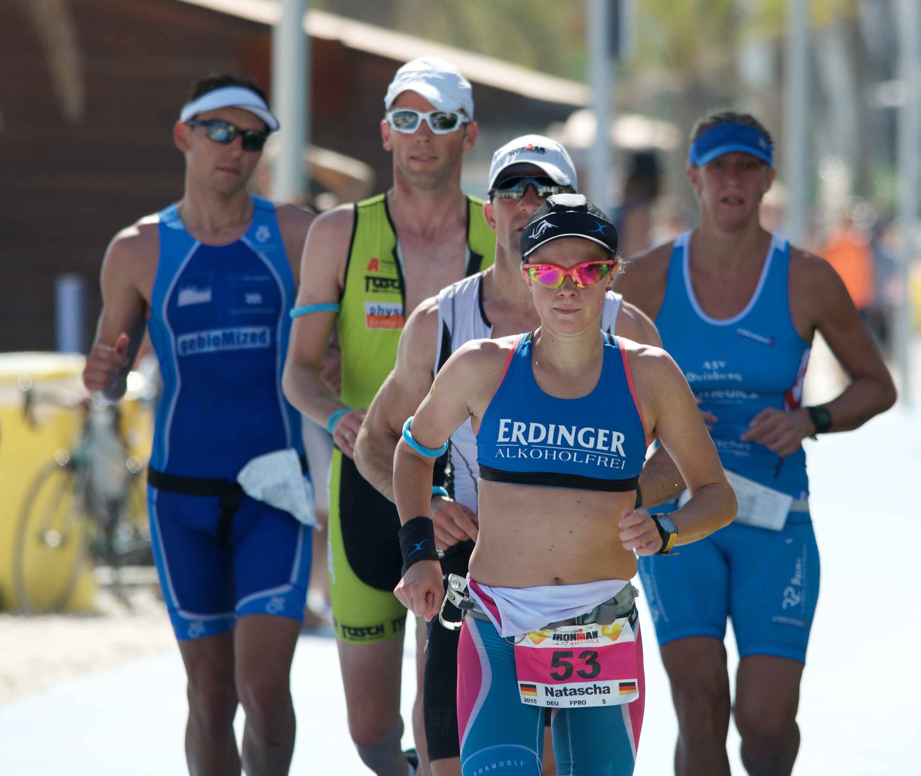 Natascha Schmitt, Ironman Mallorca 2015